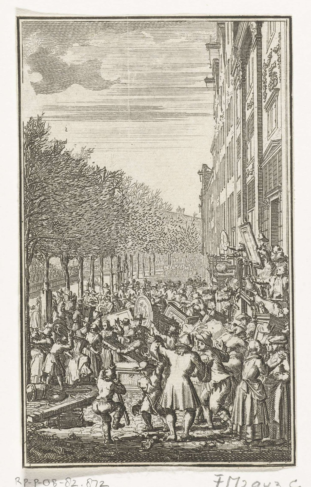 The undertaker’s men revolt. Plundering of the residence of the mayor of Amsterdam.